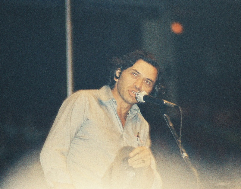 Promoter Bill Graham at a Cosby, Stills Nash & Young concert, August 1974